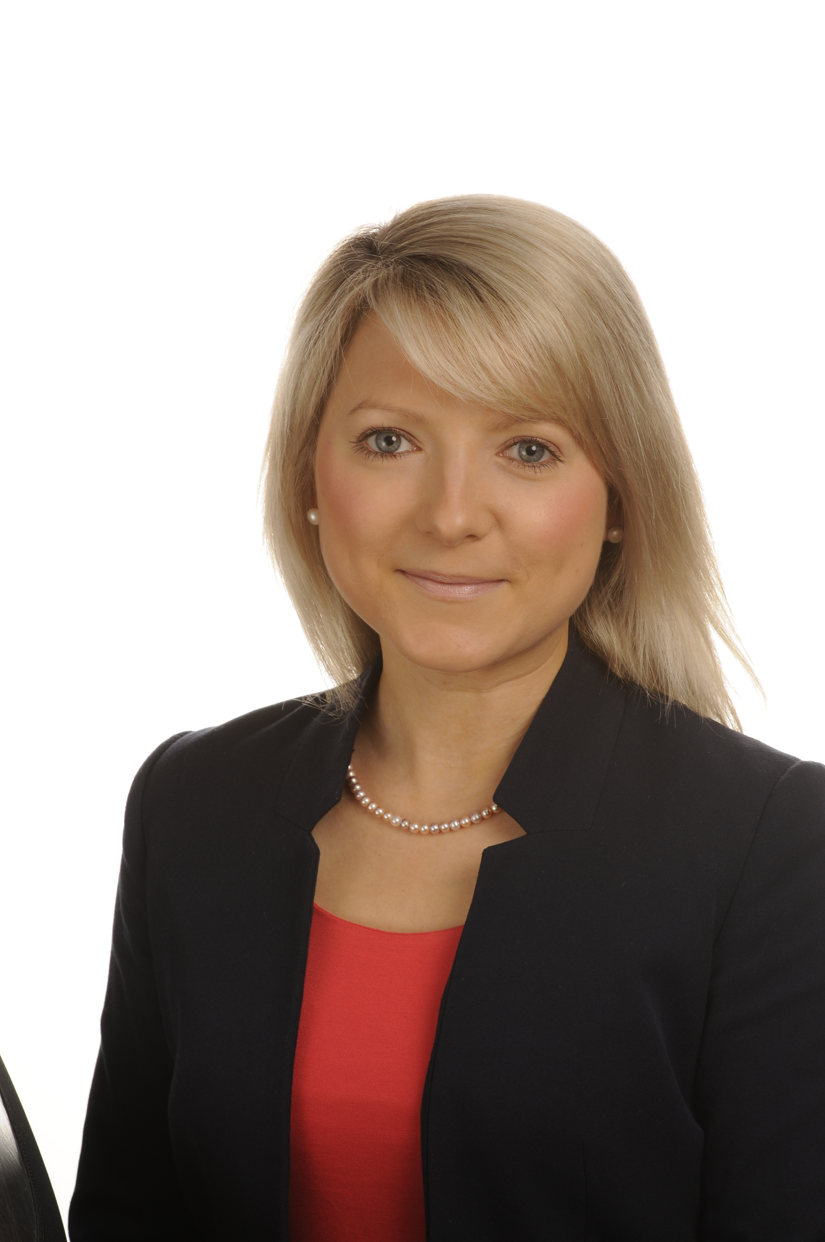 Photo of Kirstene Hair